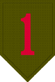 1st Infantry Division Shoulder Sleeve Insignia